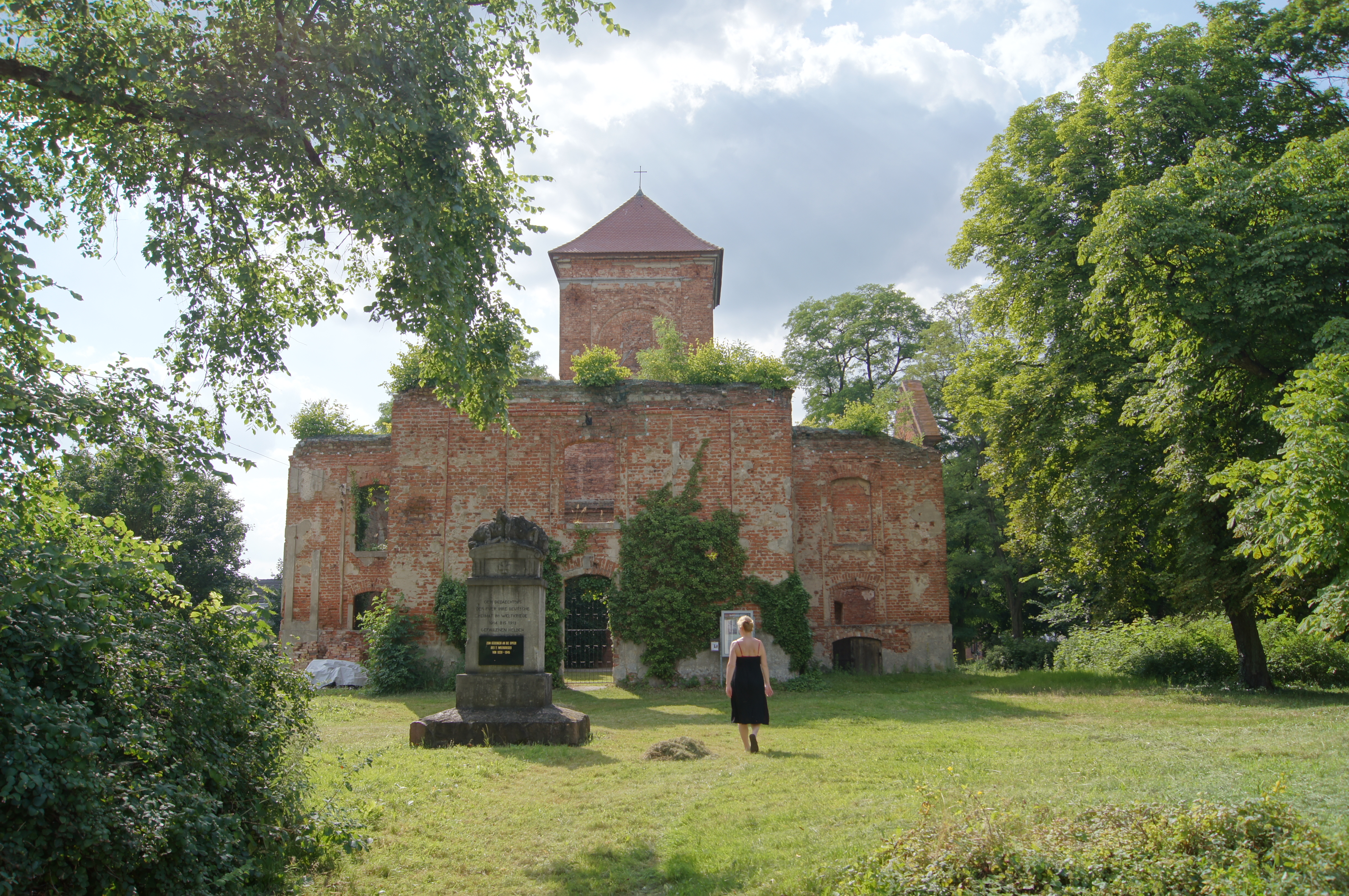 Village church in Lossow, Frankfurt (Oder), Brandenburg, Germany